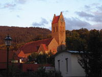 Church in Buehl- Neusatz (Germany)